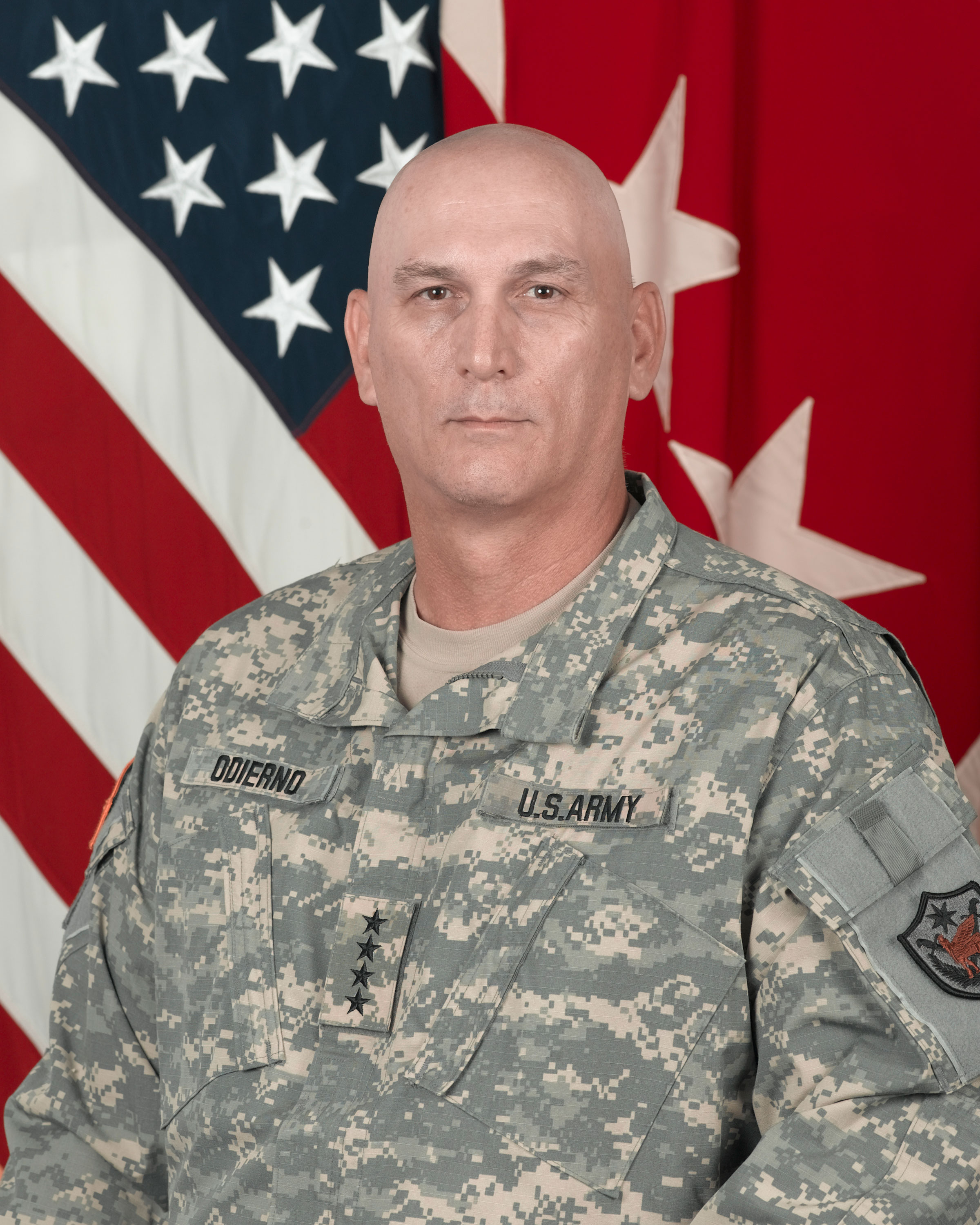 General Raymond T. Odierno, USACommanding General, Multi-National Force - Iraq